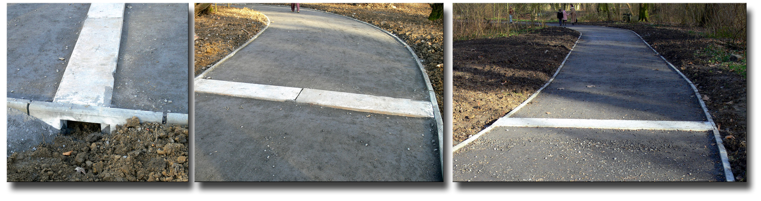 Ecoducs (or Wildlife crossings) known in French as “lombriducs”, are designed to allow worms and other invertebrates to cross man-made roads and paths (here: Urban Park, in Lille, North of France). The ground which is in this reversed U-shaped passage is the original ground and was not moved nor rammed during the construction of this artificial crossing. This passage is intended to decrease the contribution of the path to the ecological fragmentation of the local landscape and biotype.